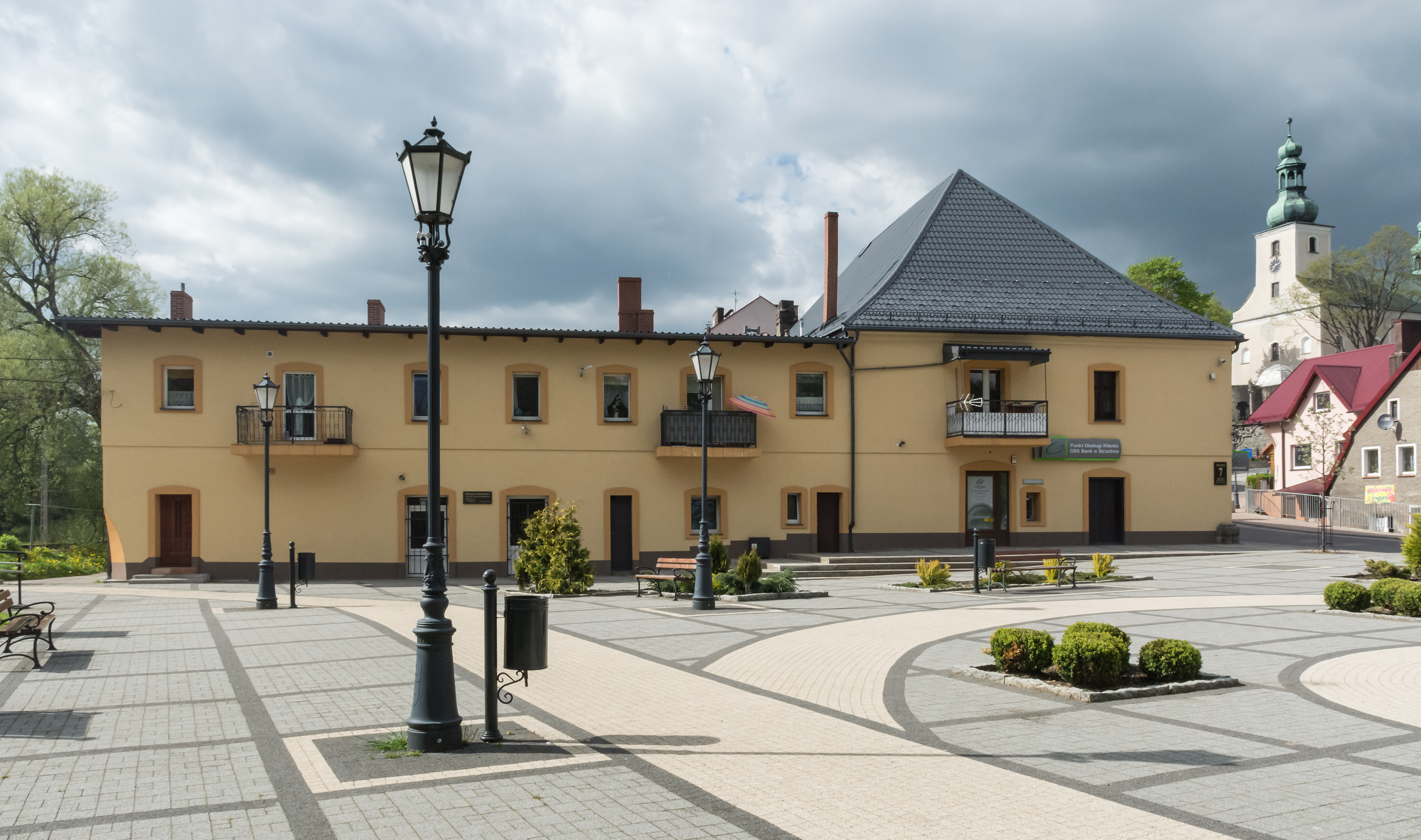 7 Wolności Street in Szczytna